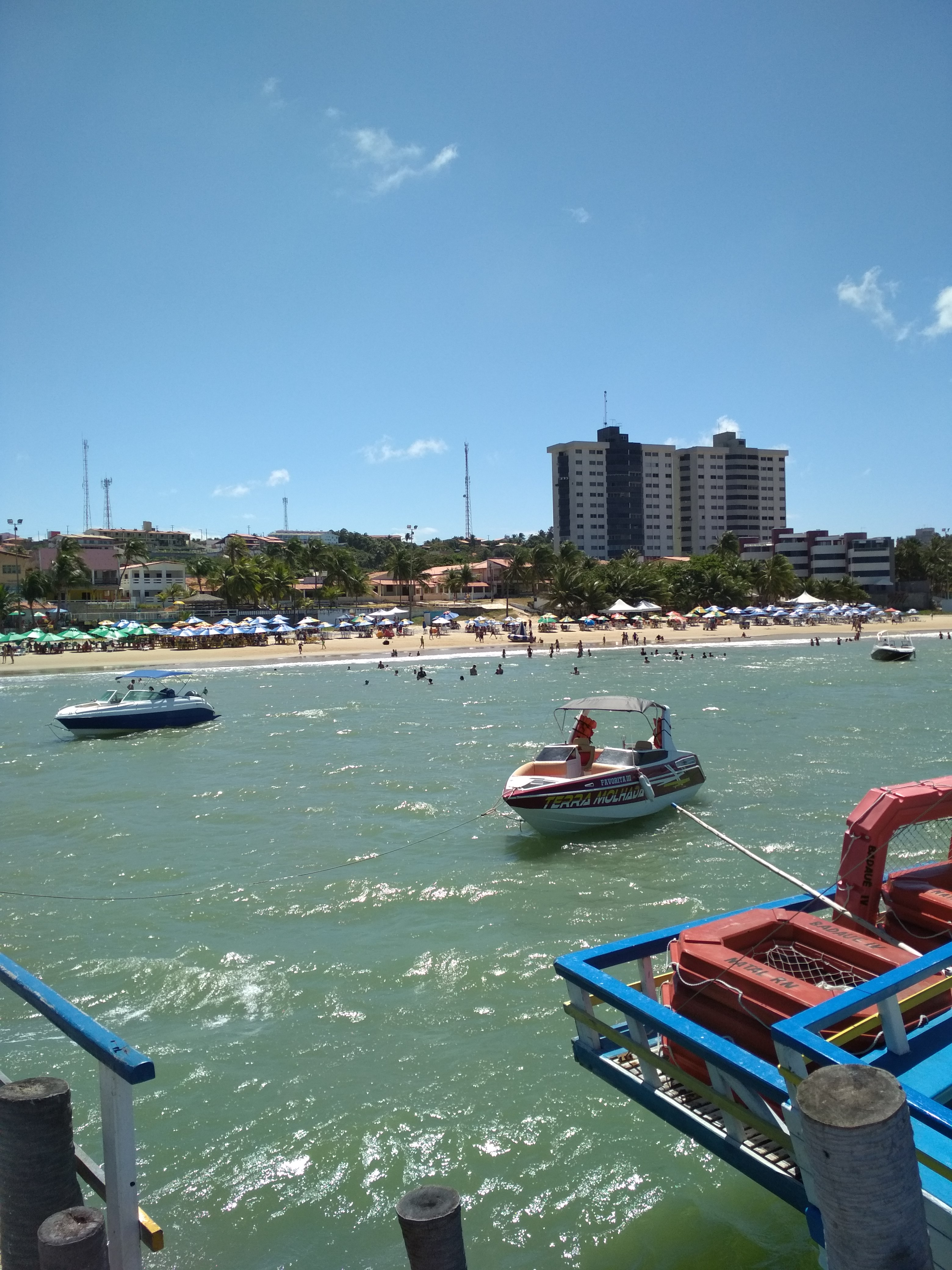 Pirangi do Norte beach, Rio Grande do Norte, Brazil